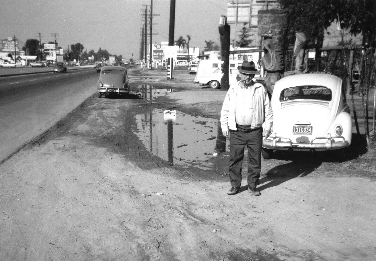 Photo of front of Eli Hedley's Island Trade Store, Beach Blvd, Midway City, California, United States January 1965. At that time, most American towns had many foreign cars, including a good number of Volkswagen Bugs but little else. This photo includes three VW's and a Volvo. This Midway City site later would be annexed by Westminster to develop and receive tax revenues from Elmore Toyota at 15300 Beach Boulevard, Westminster, CA 92683. There are no known copyright restrictions on this image. All future uses of this photo should include the courtesy line, "Photo courtesy Orange County Archives."